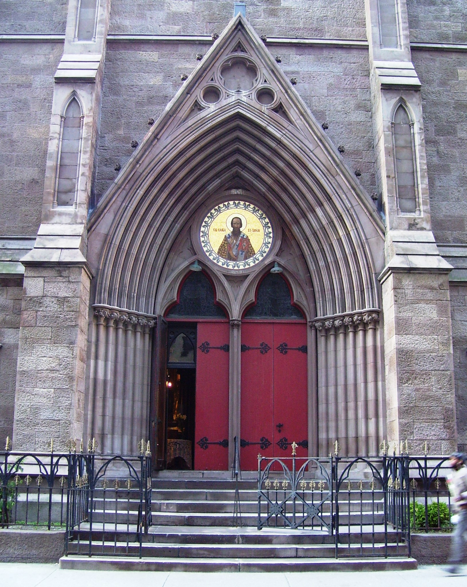 The Serbian Orthodox Cathedral of St. Sava at 25 West 25th Street between Broadway and Sixth Avenue in the Nomad neighborhood of Manhattan, New York City, was built in 1850-1855 as Trinity Chapel, designed by Richard Upjohn in Gothic Revival style. In 1942 it was sold to become the Serbian Orthodox Cathedral of St. Sava. A bomb that exploded nearby in 1973 destroyed some of the stained-glass windows, which were replace with Byzantine-style windows commissioned by the church. (Sources: AIA Guide to NYC (4th ed.), Guide to NYC Landmarks (4th ed.) and From Abyssinian to Zion (2004))